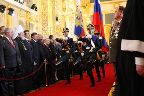 GRAND KREMLIN PALACE, MOSCOW. Inauguration of Dmitry Medvedev as President of Russia. The Russian State Flag and Presidential Standard are carried in.